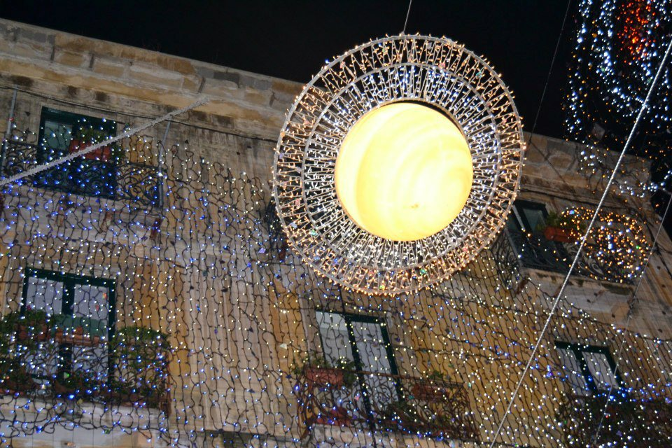 "Luci d'Artista" of Salerno (Italy), 2012. Particular of Saturn, in Flavio Gioia square